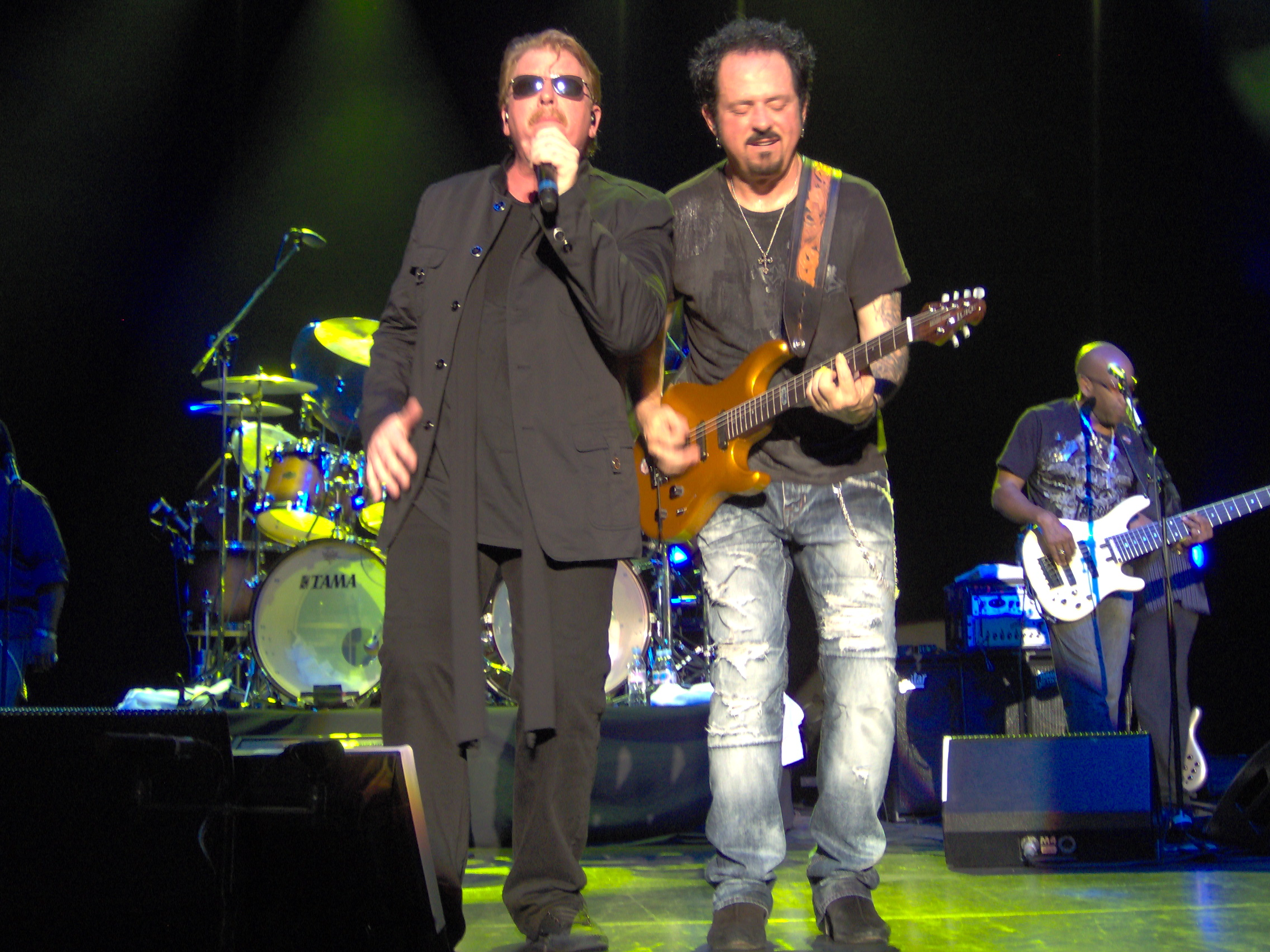 Joseph Williams with TOTO live in Copenhagen July 20th 2010